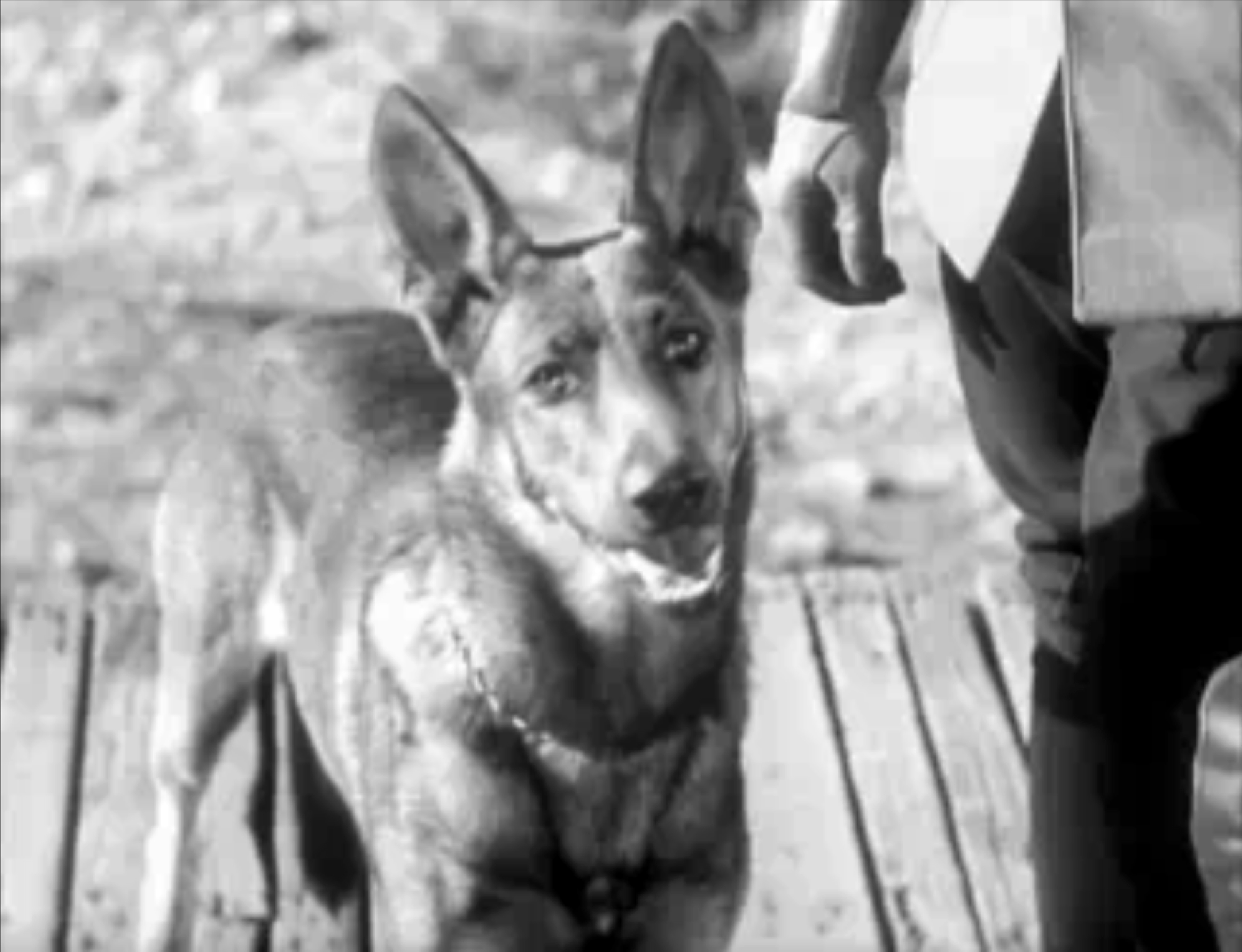 Screenshot of the canine actor Lightning from the 1937 film Renfrew of the Royal Mounted (at 35:38)